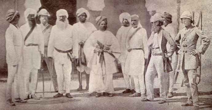 British and Indian Officers of the 18th Punjab Infantry (later 26th Punjabis, and now, 10 Punjab, Pakistan Army), Delhi, May 1859. Published in Stoney, History of the 26th Punjabis 1857-1923, 1924.